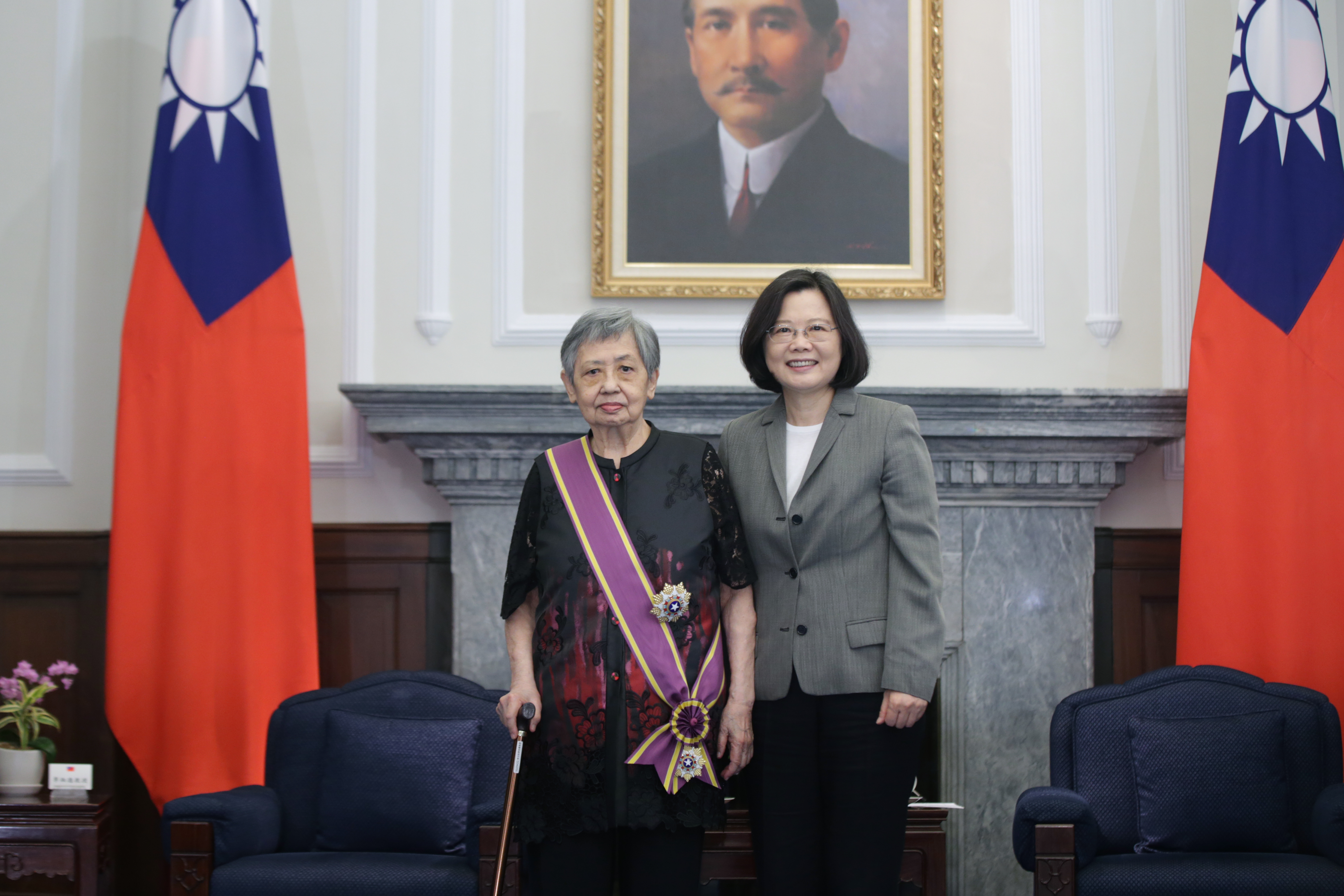 授權方式及範圍：中華民國總統府│政府網站資料開放宣告 Authorization Method & Scope: Office of the President, Republic of China (Taiwan) | Government Website Open Information Announcement